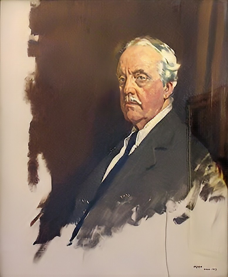 Arthur Balfour was a founding Fellow of the British Academy. He was well known as a philosopher before entering Parliament in 1874. He served in Salisbury’s cabinet from 1886 and was Prime Minister from 1902 to 1905. As Premier he was primarily concerned with defence issues and foreign policy, and is probably best remembered for the Balfour Declaration (1917), recommending a national homeland for the Jewish people in Palestine. He was the British Academy’s longest serving President (1921–1928). Sir William Orpen was a successful and fashionable portrait painter equally well known as a war artist of the First World War and an official artist at the 1919 Versailles Peace Conference, where this portrait was painted. Of Balfour he said, ‘What a head! It put all other heads out of the running. So refined, so calm, so strong, a fitting head for such a great personality.’